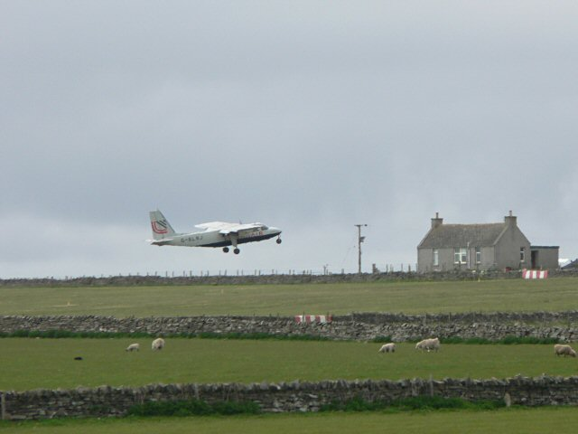 Islander leaving Sanday airstrip